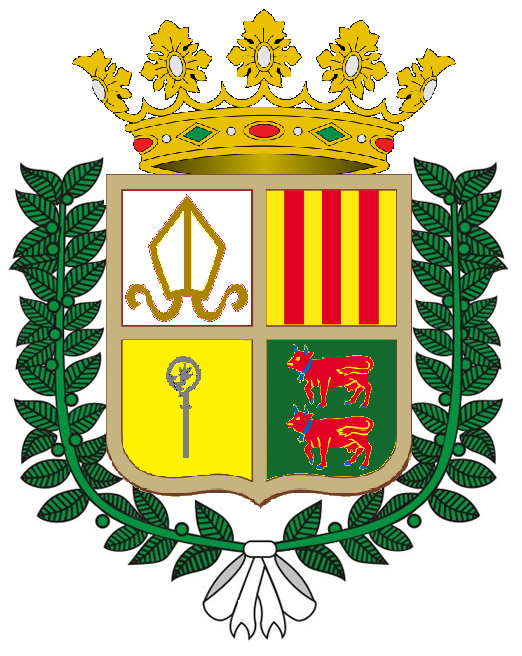 Escut Andorra anys 30, probablement utilitzat a l'época de Borís I